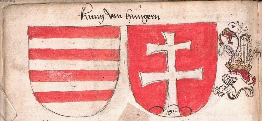 Royal coats of arms of Hungary as shown in the Gelre Armorial (between 1369 and 1396).